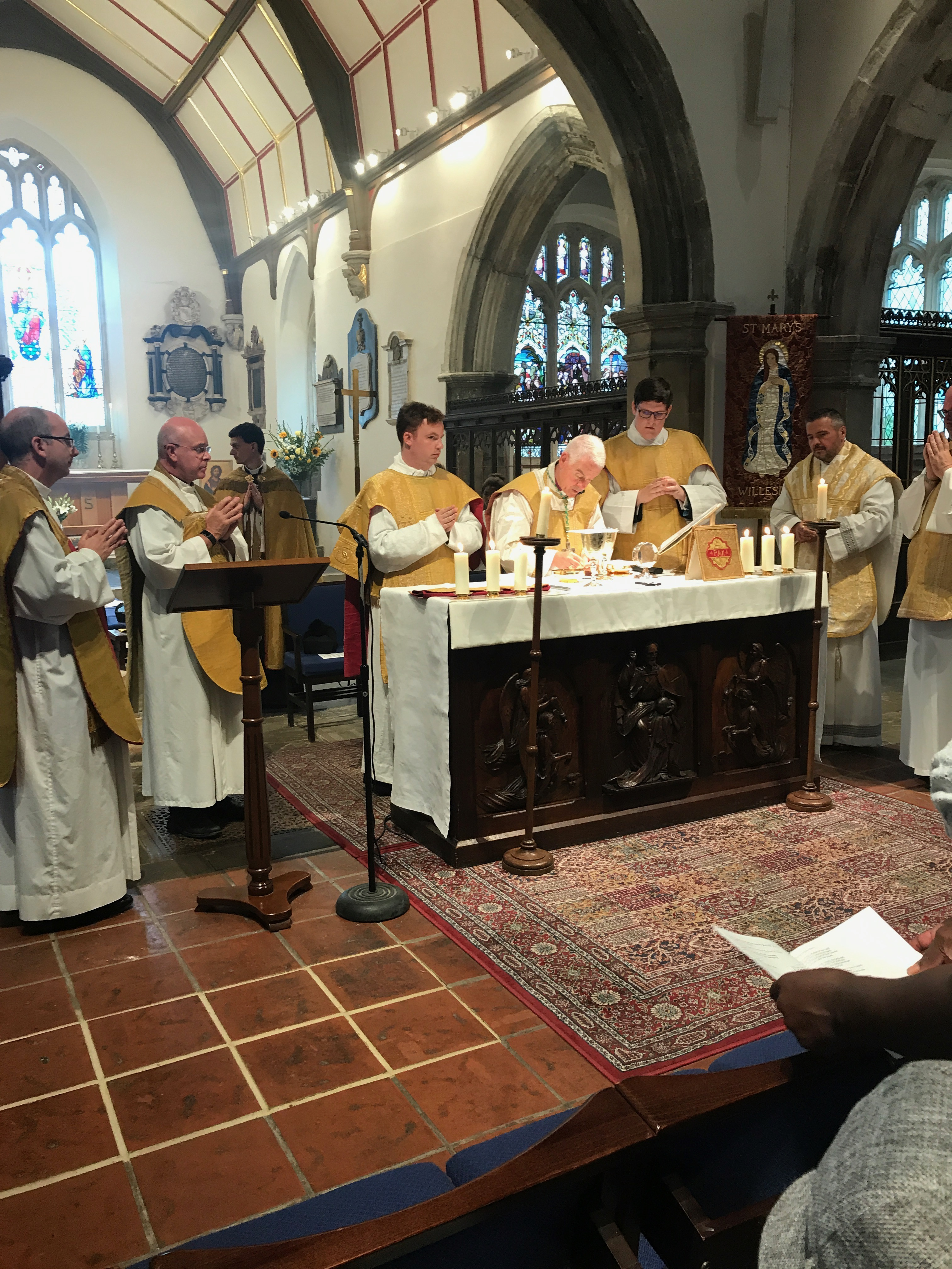 2018 pilgrimage mass at the shrine of Our Lady of Willesden, St Mary's parish church, London NW10. Bishop Peter Wheatley (Episcopal Patron) is the principal celebrant, with chapter-priests of the shrine.